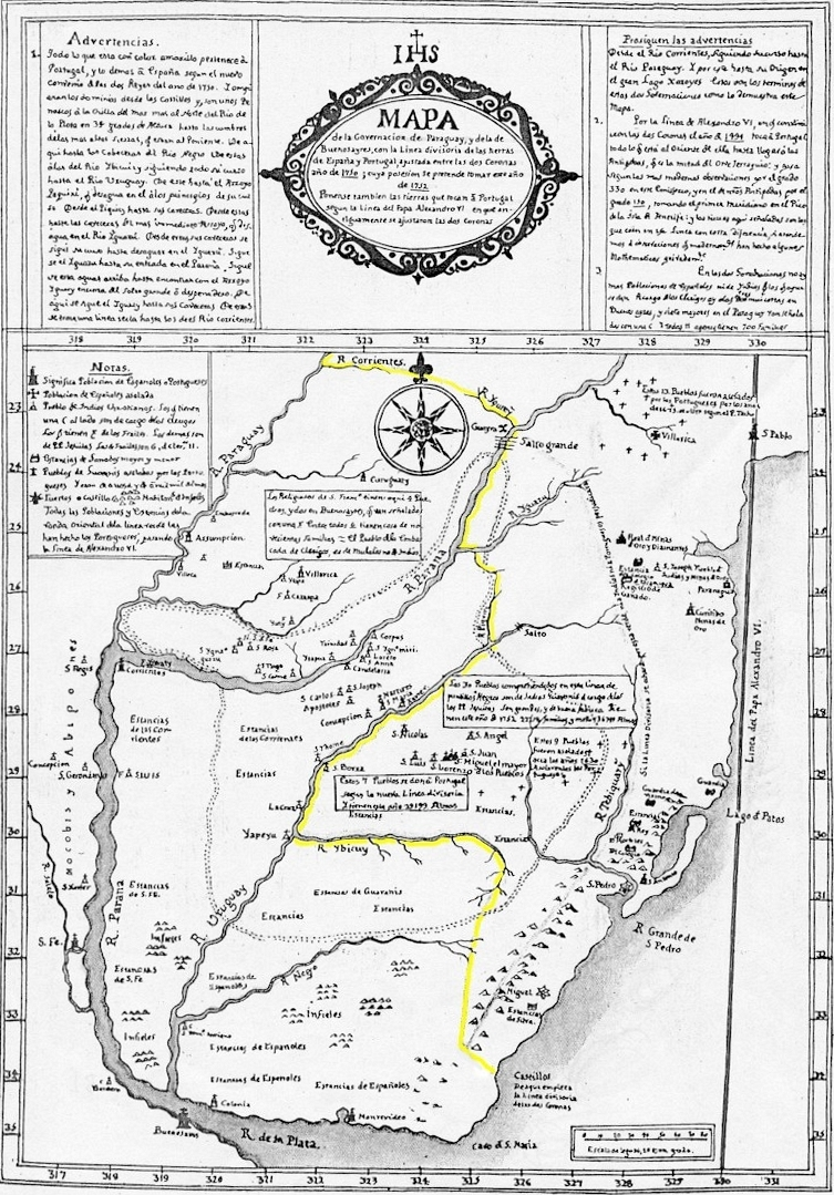 Map of the lands under control of Paraguay and Buenos Aires, anno 1752